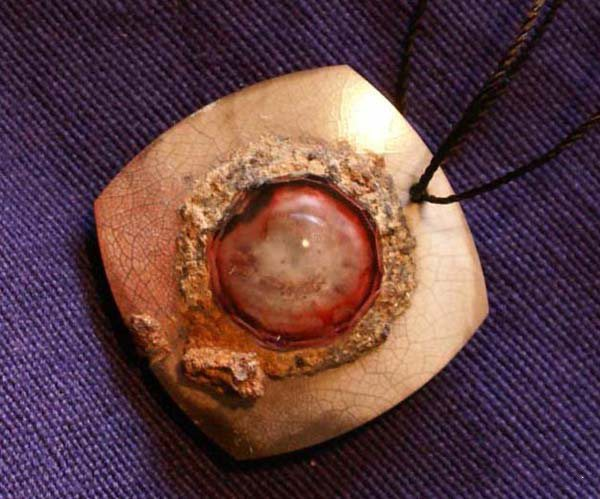 Ruby eye pendant from an ancient civilisation in Mesopotamia. Adilnor Collection.